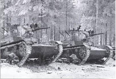 Soviet tank platoon at ground position before attack.